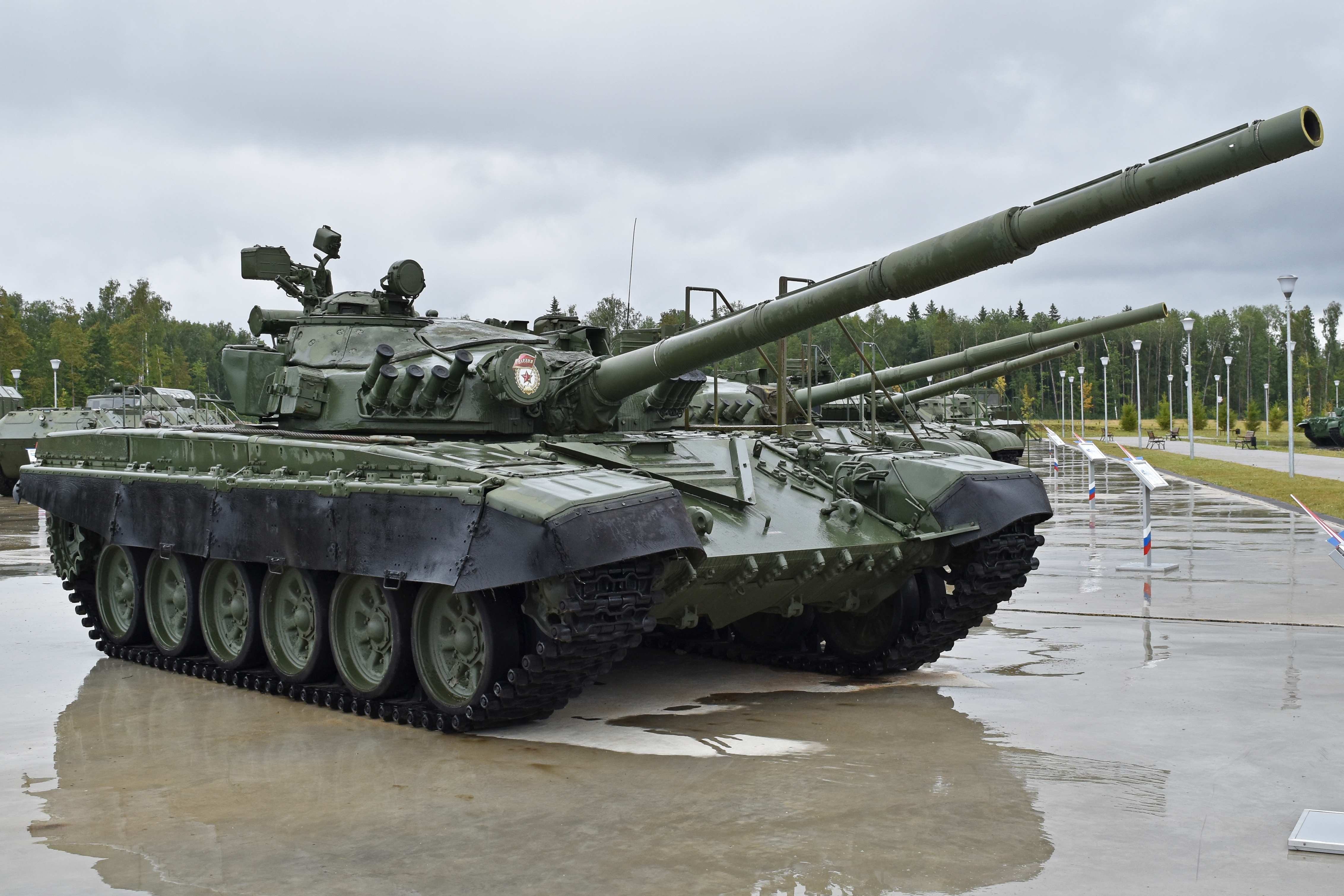 Soviet 2nd Generation Main Battle Tank Manufacturer:- Uralvagonzavod Built:- from 1973 Total Production:- 25,000+ Main Armament:- 125mm 2A46M Smoothbore gun Introduced in 1979, the ‘A’ model had a laser rangefinder and increased, composite armour along with various other small improvements. It was the basis for the T-72M export model. On display in Area 1 of the Patriot Museum Complex. Park Patriot, Kubinka, Moscow Oblast, Russia. 25th August 2017